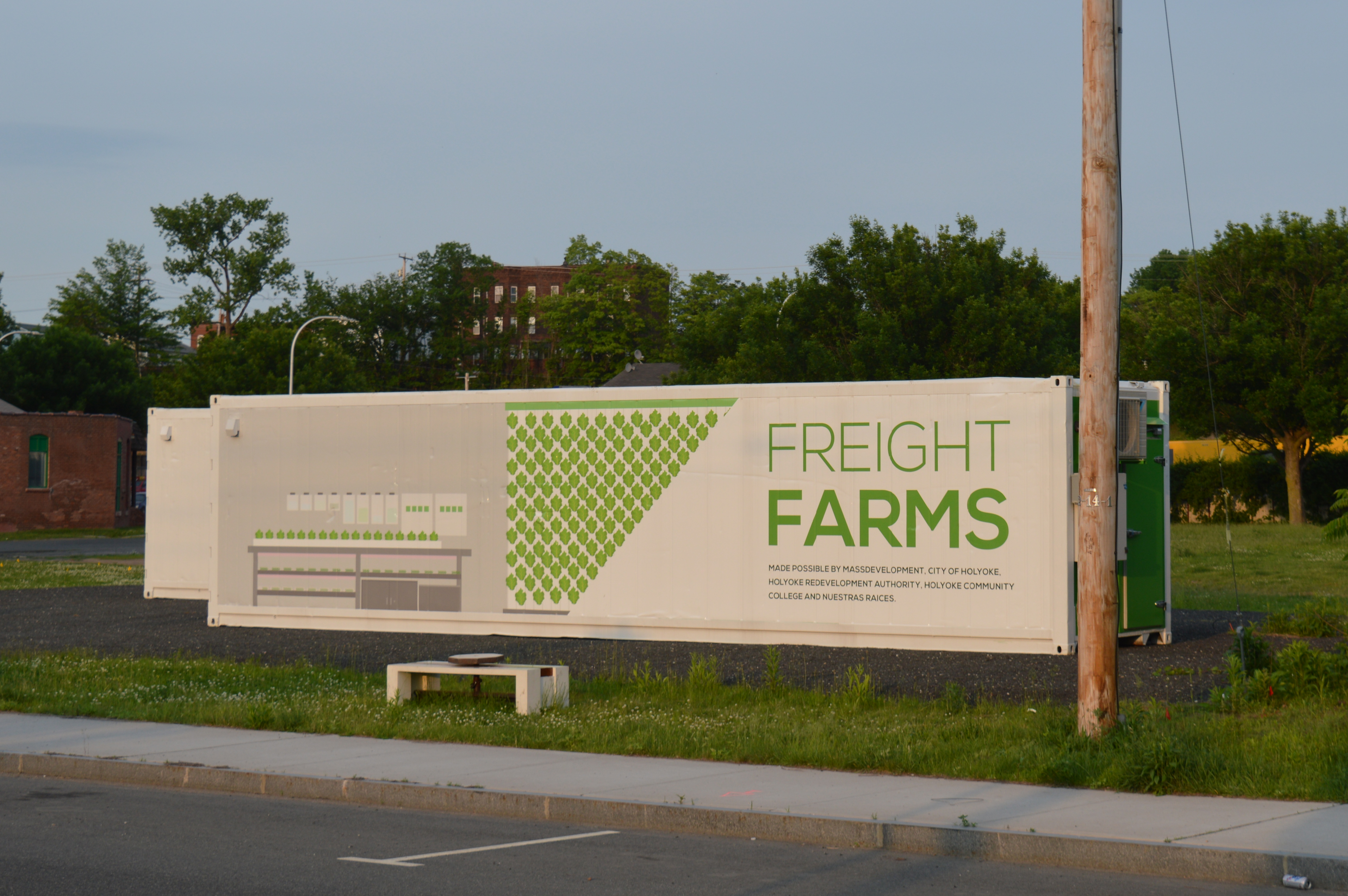 Shipping containers converted to hydroponic farming units in Holyoke, Massachusetts.